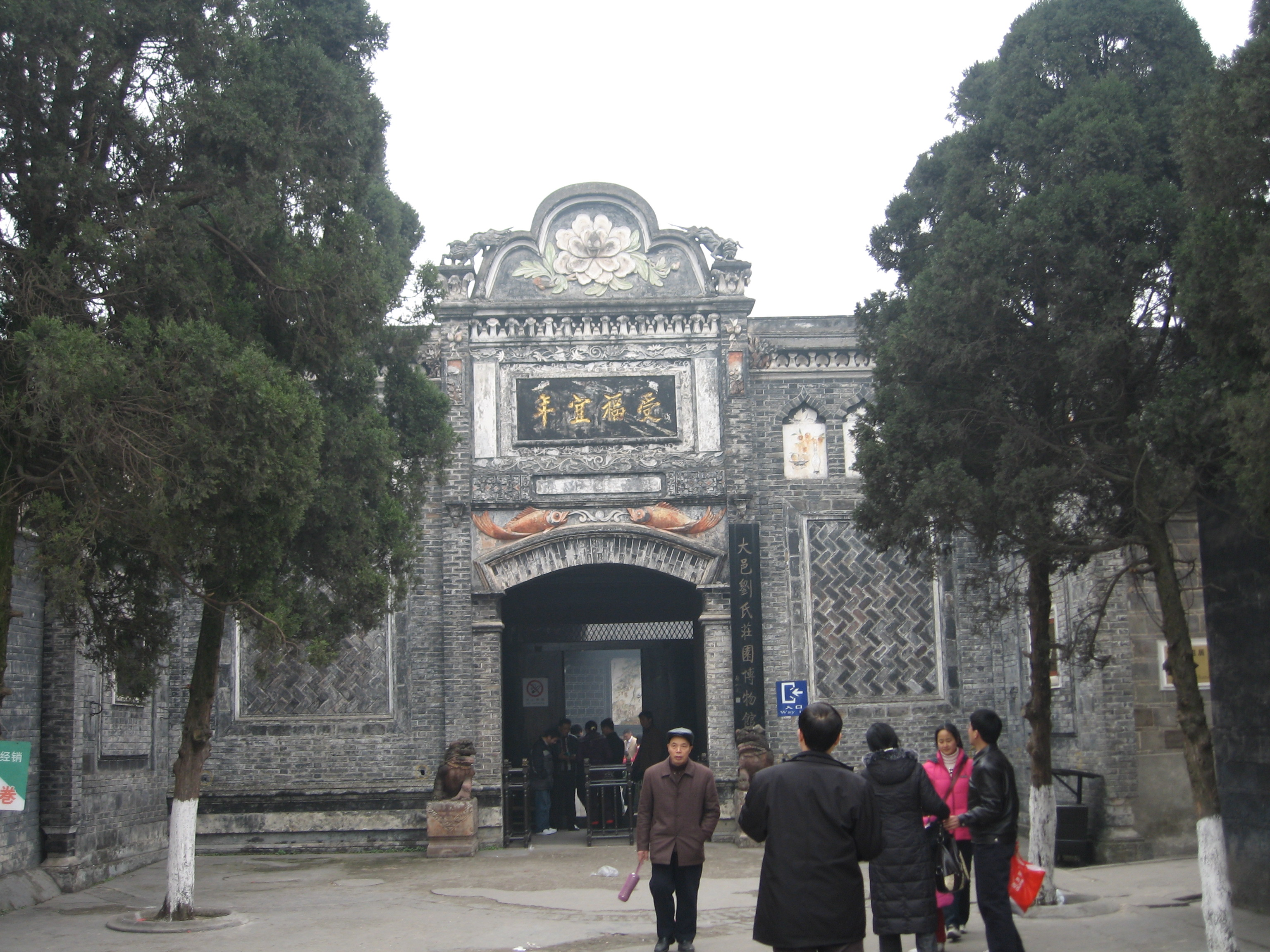 Liu's Manor House in Dayi. It's Located in Chengdu, Sichuan Provence, PRC. It's taken by BenBen.